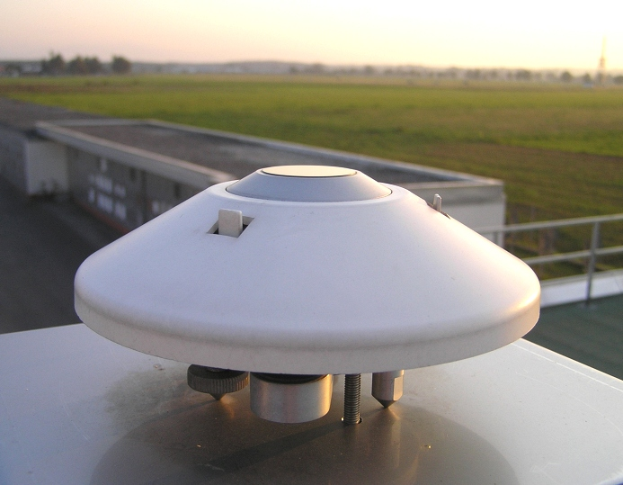 A pyrgeometer used for measuring the long-wave atmospheric counterradiation. Pyrgeometer Source: Photographed by myself Date of photograph: 2005 Oct 06 Date of upload: 2007 Mar 08 Author: Sch